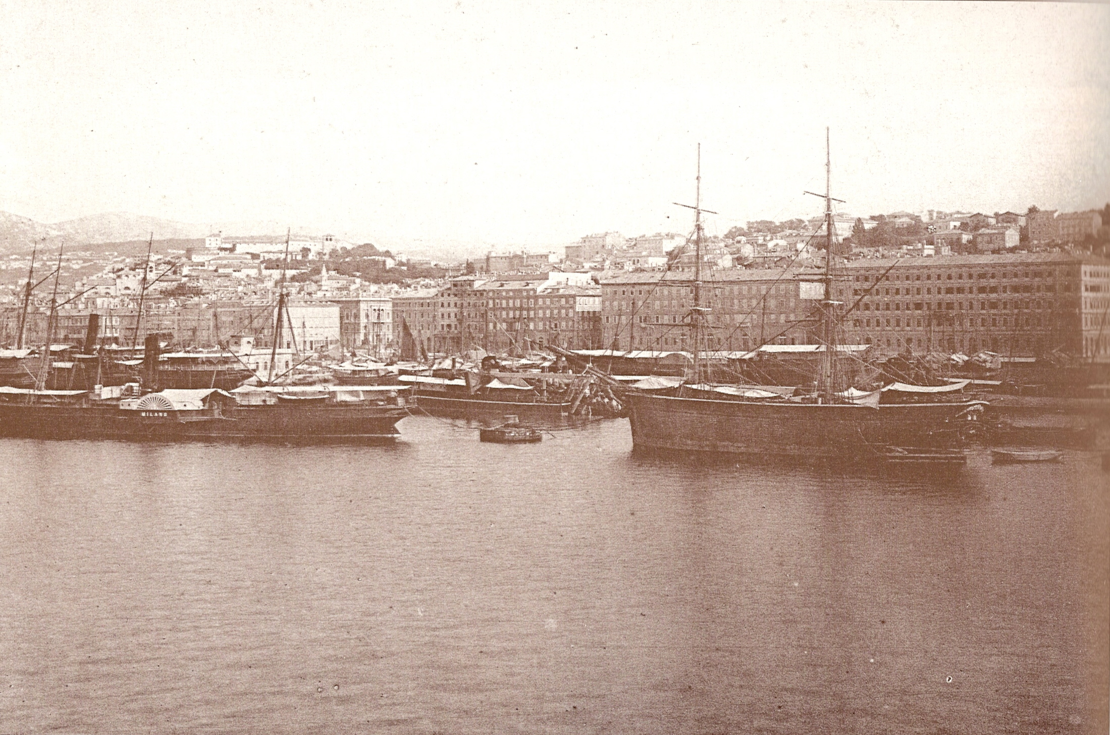 Harbour of the Italian City of Triest in 1893.